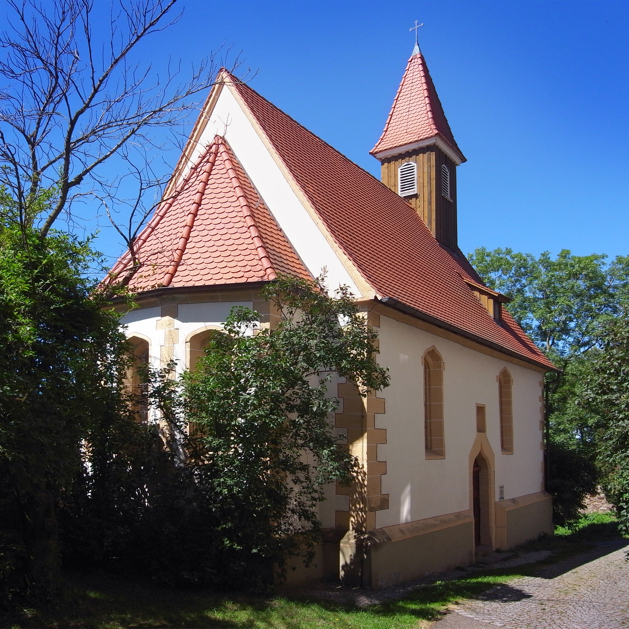 The building was first mentioned in a document from 1632